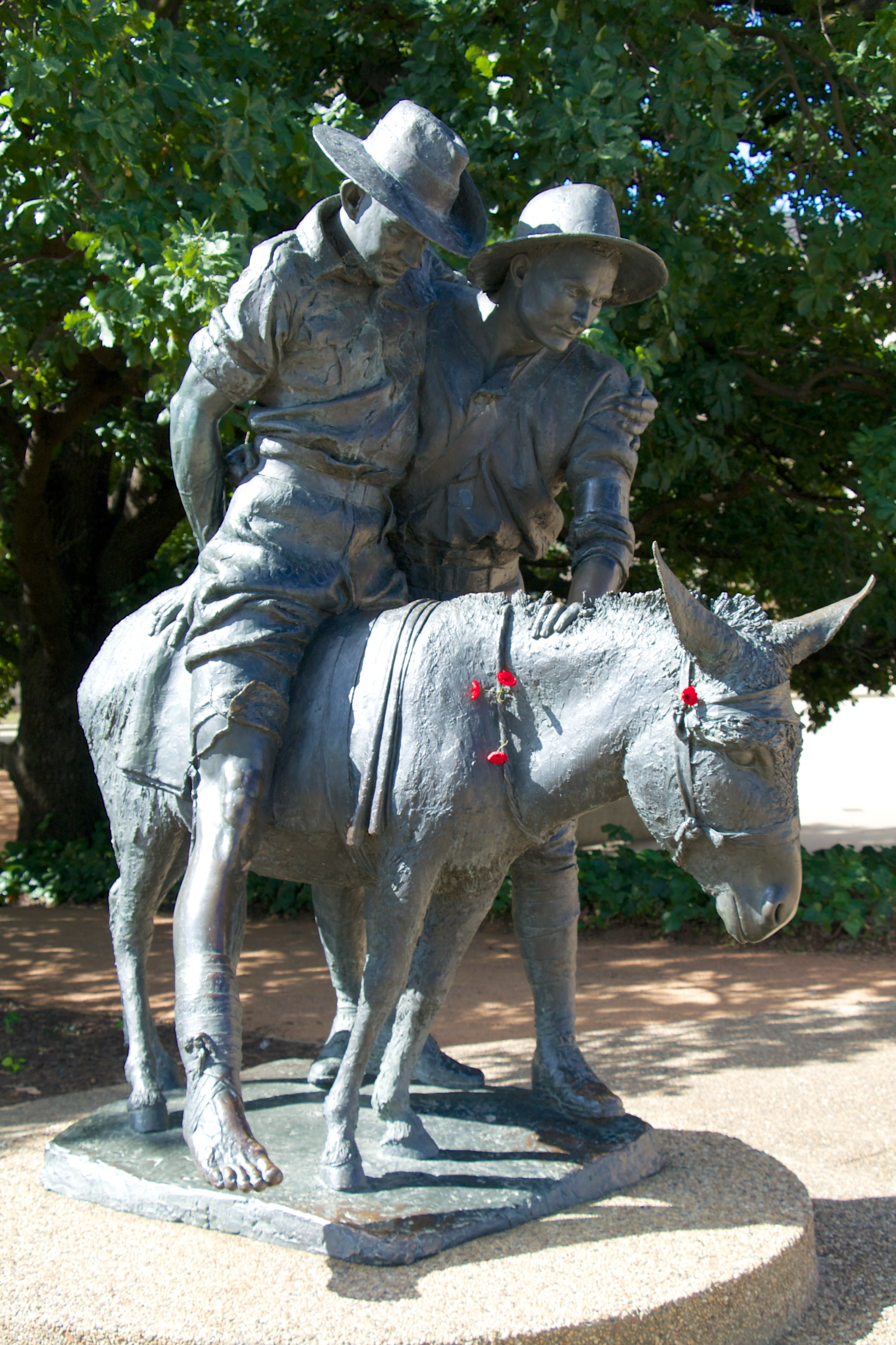 Simpson and his donkey supporting a wounded man. This statue (1987-1988) by Peter Corlett, is located outside the Australian War Memorial in Canberra.